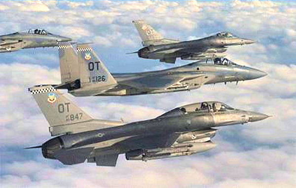 Formation of F-15 and F-16 aircraft of the 422d Test and Evaluation Squadron